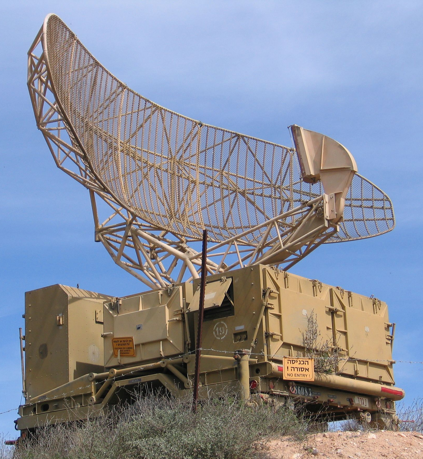 Air Force Museum (Hebrew: מוזיאון חיל האוויר, Muze'on Heyl ha-Avir), Hatzerim, Israel.